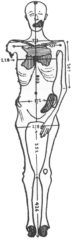 Grafton Elliot Smith's sketch of the full body of "The Younger Lady" mummy found in KV35. It shows the extensive damage that was done to the body/mummy. It clearly displays the damage thought to be done by ancient tomb robbers (right arm torn from body, chest caved in) and what is now thought to have been a lethal injury to the left cheek/jaw and/or to the top of the head, as well as a large incision on the left side of the body. Image derived from Grafton Elliot Smith's "The Royal Mummies" (Plate XCIX), which was first published in 1912. The author died in 1937 so the book/image is in the public domain. Recent genetic tests have conclusively demonstrated that this individual was the mother of Tutankhaum. The JAMA eSupplement from Feb. 17, 2010 concludes that "The statistical analysis revealed that the mummy KV55 is most probably the father of Tutankhamun (probability of 99.99999981%), and KV35 Younger Lady could be identified as his mother (99.99999997%)." (eSupplement, p.3).